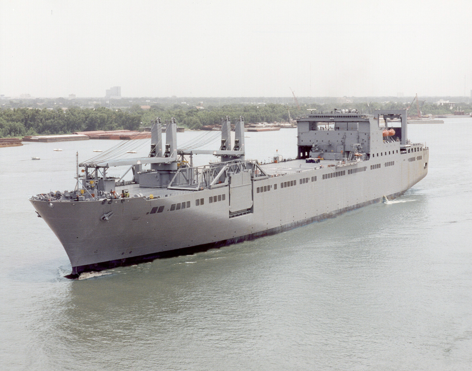 USNS Fisher is one of Military Sealift Command's nineteen Large, Medium-Speed Roll-on/Roll-off Ships and is part of the 18 ships in Military Sealift Command's Sealift Program Office. Length: 950 feet Beam: 106 feet Draft: 34 feet Displacement: 62,069 long tons Speed: 24.0 knots Civilian: 30 contract mariners